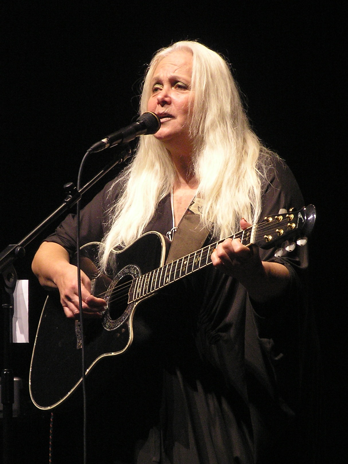 Israeli Singer Miri Aloni